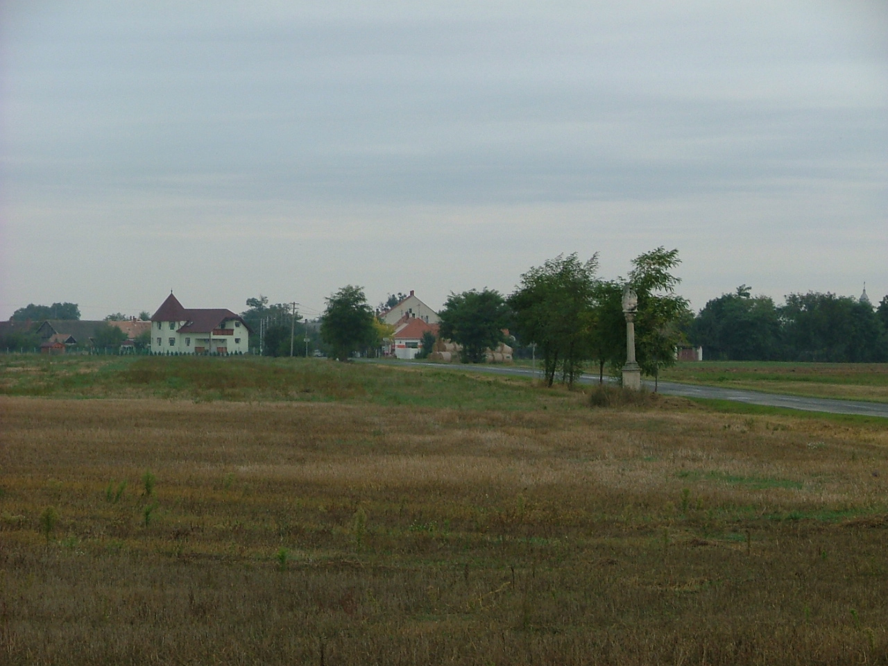 Hövej